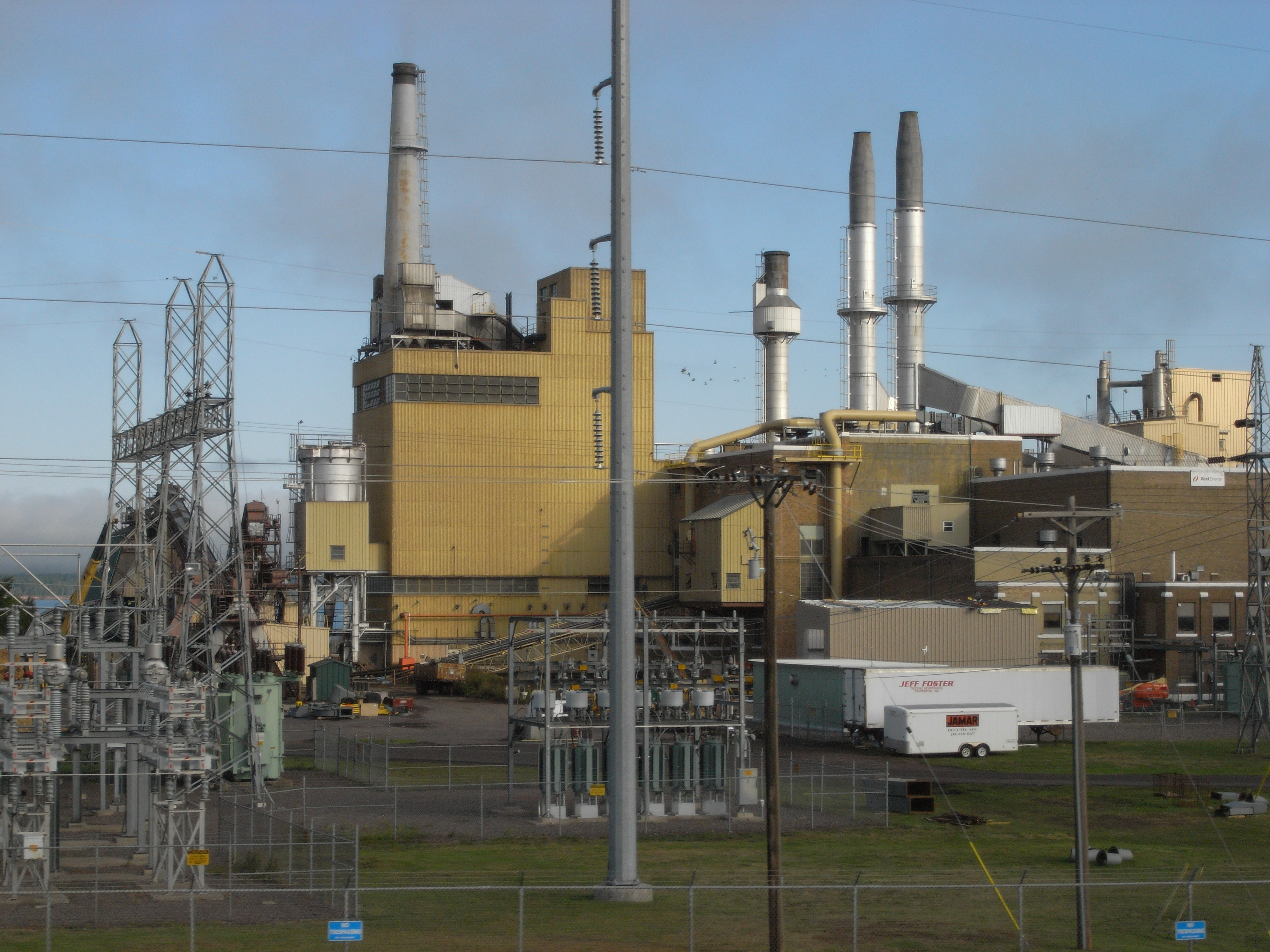 Xcel Energy Bay Front Power Plant in Wisconsin